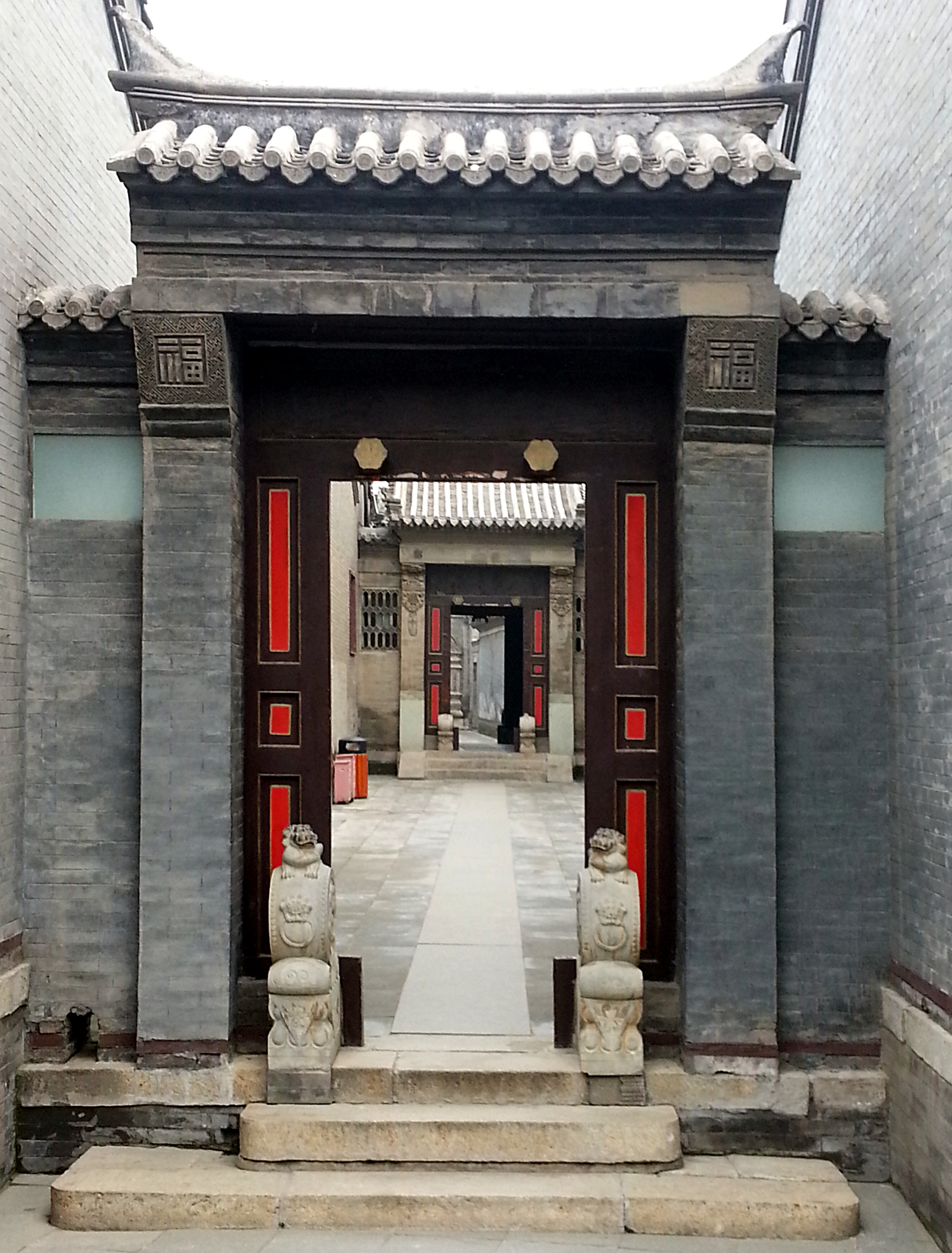 Photograph of doorways in the Shi Family Grand Courtyard, Tianjin, China.